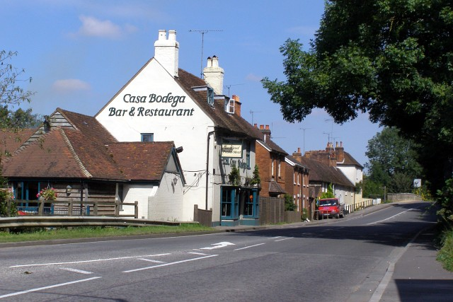 A27 road approaching Middle Bridge, Romsey This is the A27 approaching Romsey, with Middle Bridge (over the River Test) in view towards the right of the photo.